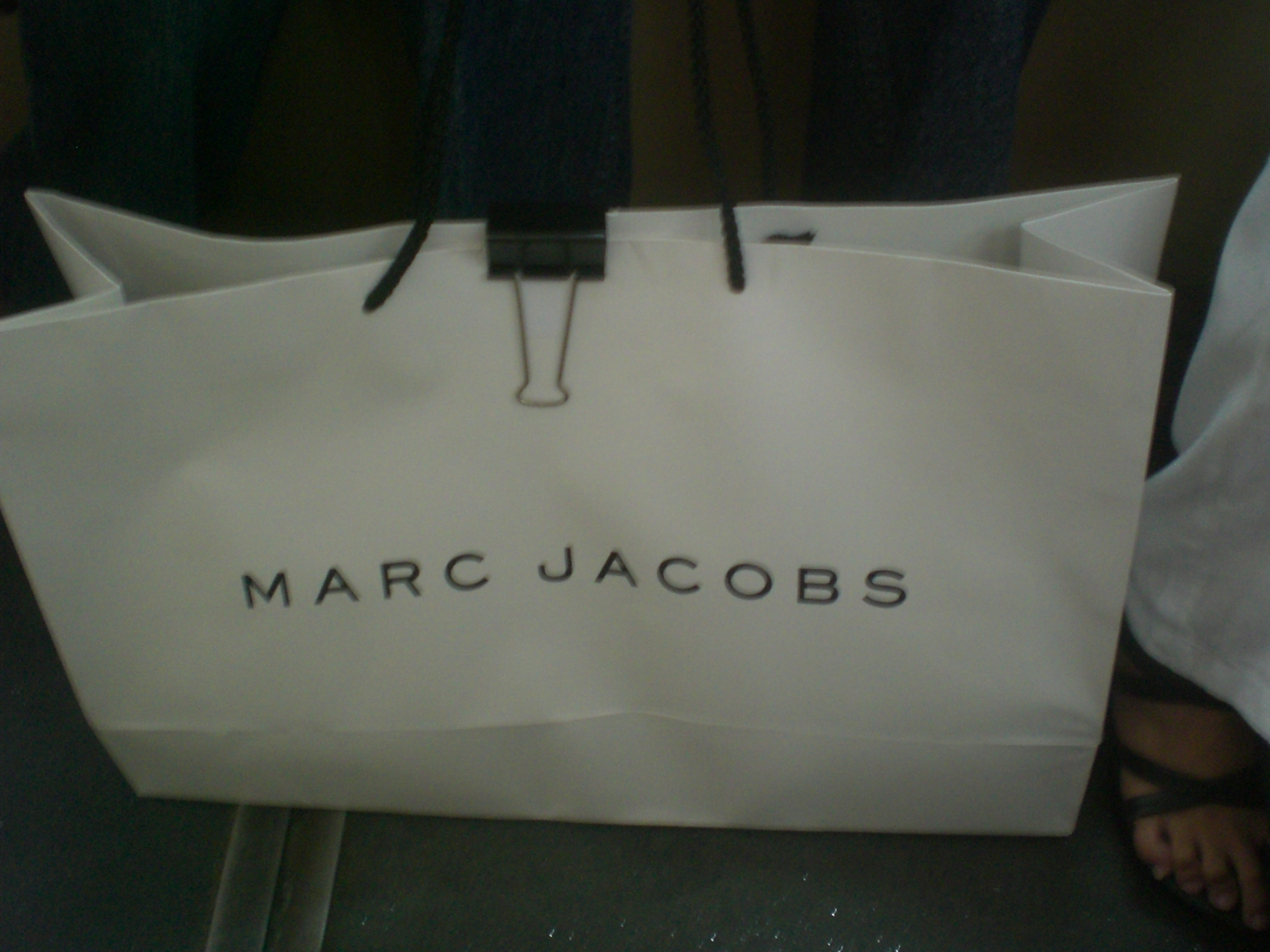 香港電車 內景